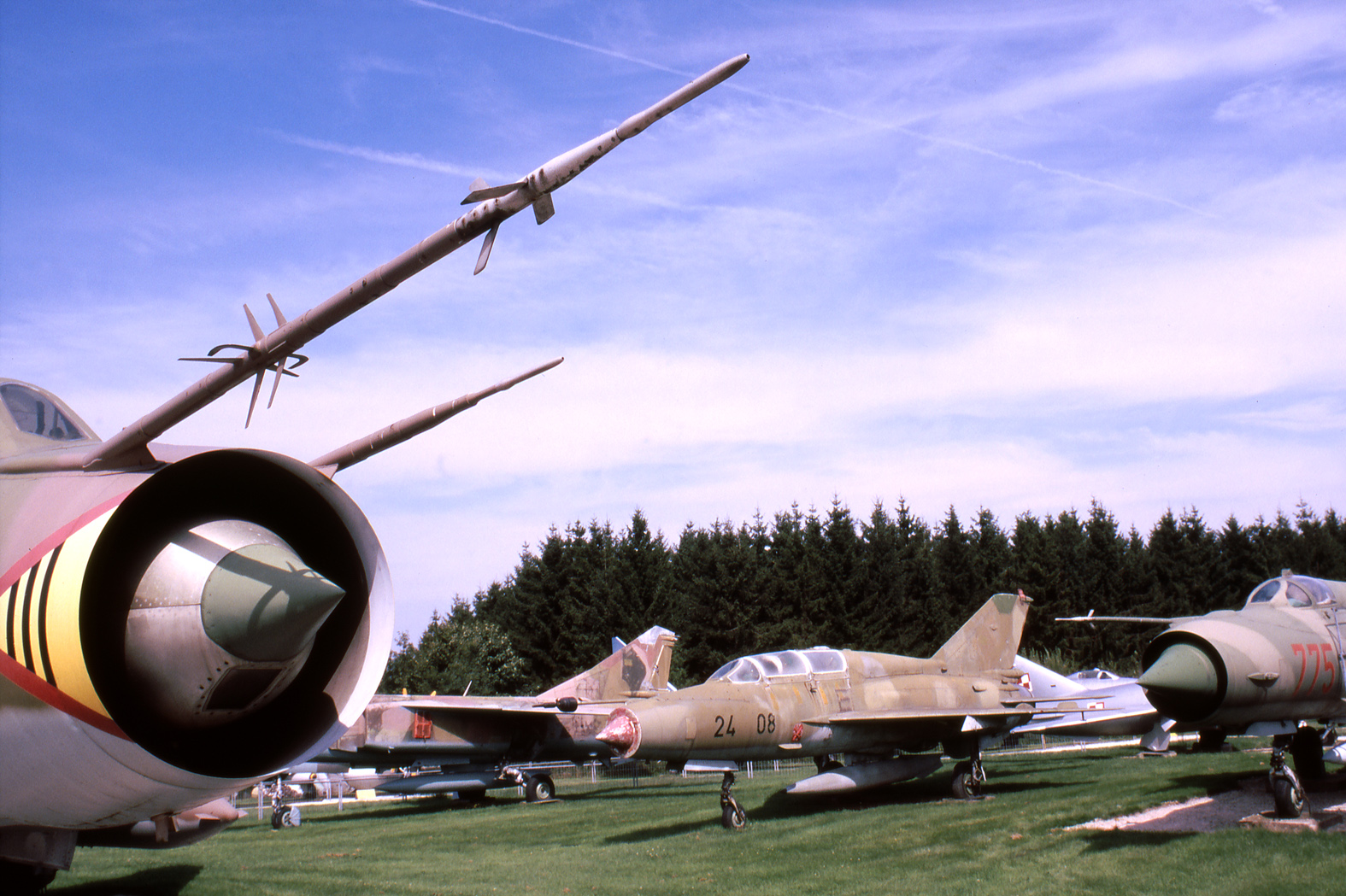 Aircraft exhibition, L-R Sukhoi Su-22 (fore), MiG-23, MiG-21UM, Mig 17F/Lim-5 (back), Mig 21 MF; Hermeskeil, Rhineland-Palatinate, Germany